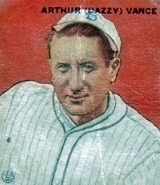 A 1933 Goudey Baseball Card of Dazzy Vance #2. I did a proper copyright search of the card, and the copyright wasn't renewed.